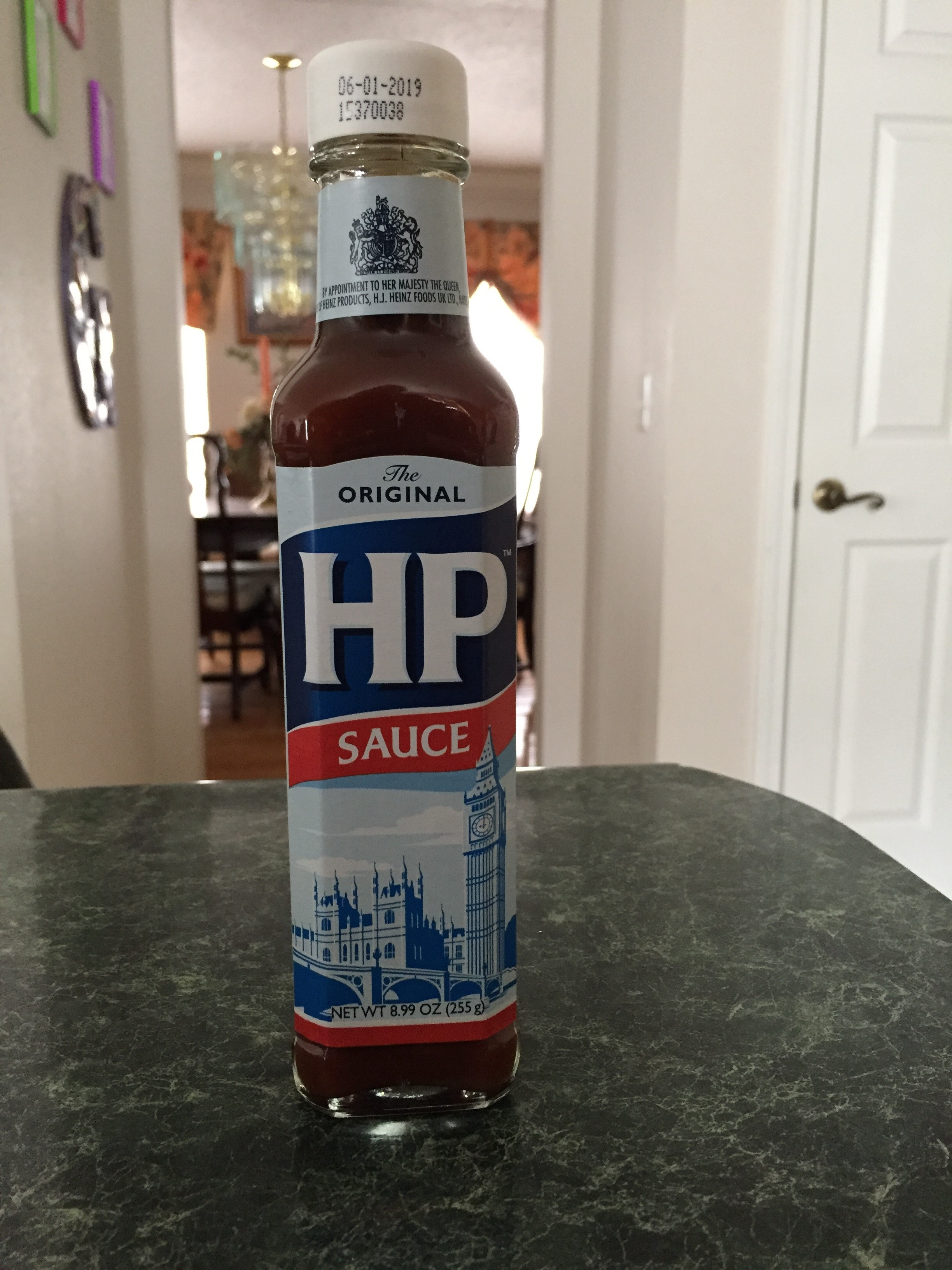 Bottle of Original HP Sauce